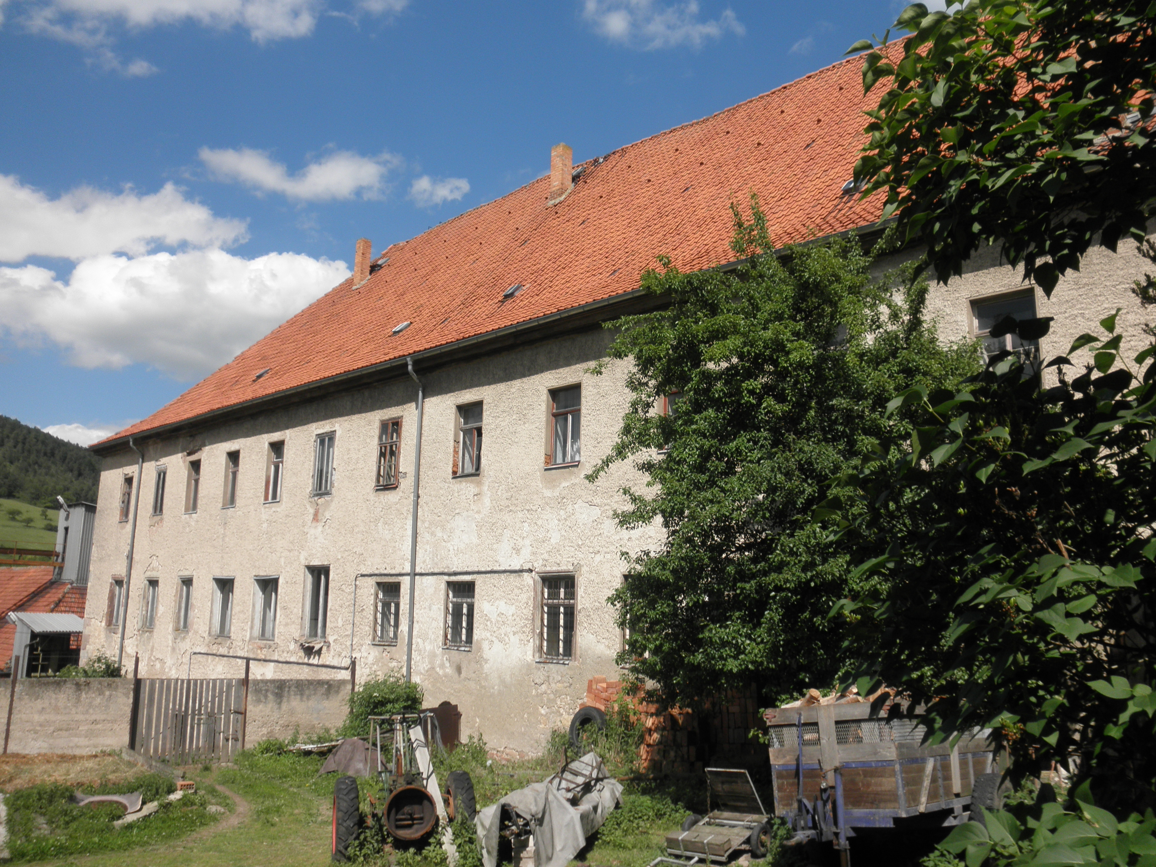 Former Castle in Altenberga in Thuringia